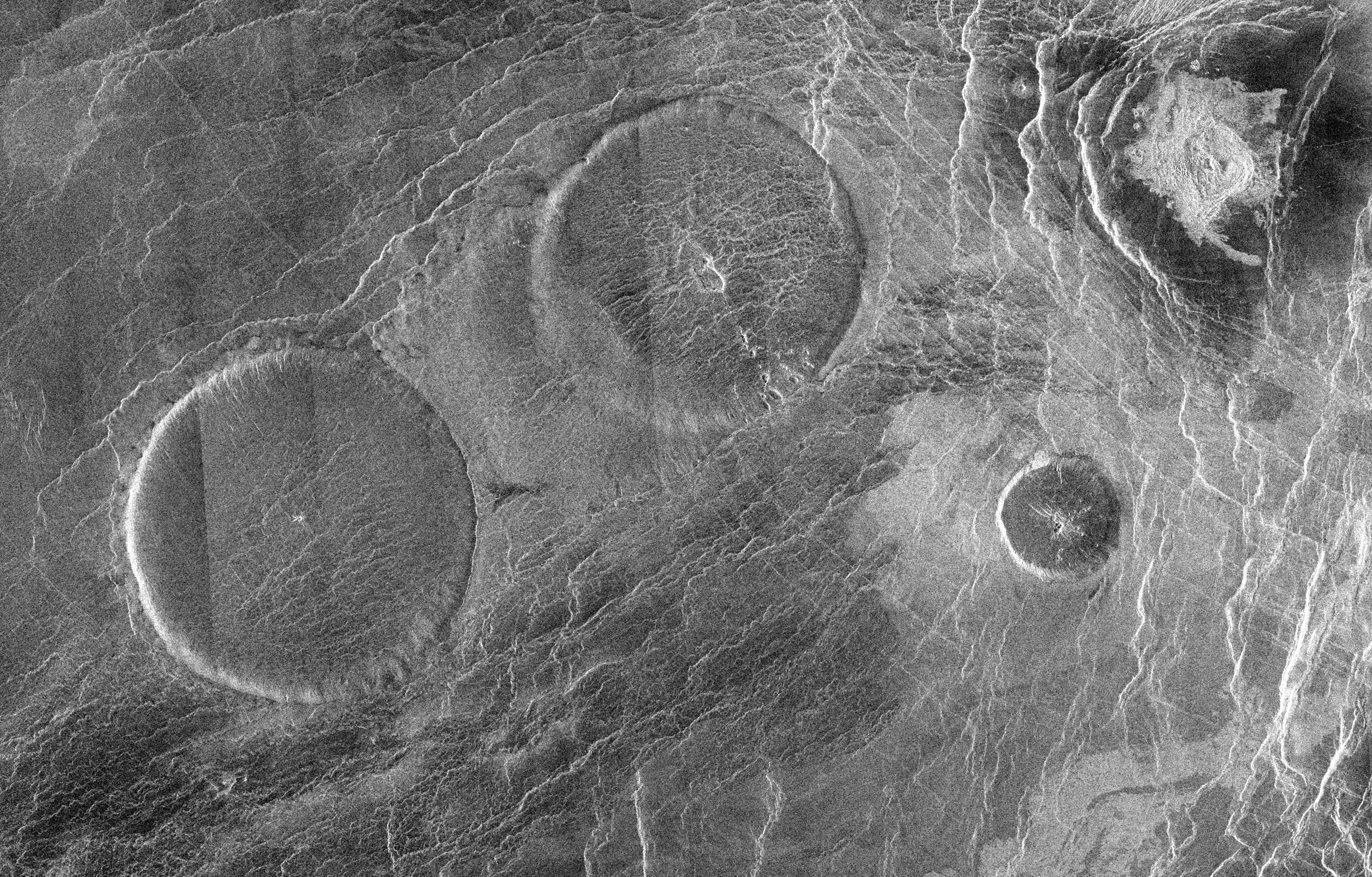 This Magellan full resolution mosaic, centered at 12.3 north latitude, 8.3 degrees east longitude, shows an area 160 kilometers (96 miles) by 250 kilometers (150 miles) in the Eistla region of Venus. The prominent circular features are volcanic domes, 65 kilometers (39 miles) in diameter with broad, flat tops less than one kilometer (0.6 mile) in height. Sometimes referred to as 'pancake' domes, they represent a unique category of volcanic extrusions on Venus formed from viscous (sticky) lava. The cracks and pits commonly found in these features result from cooling and the withdrawal of lava. A less viscous flow was emitted from the northeastern dome toward the other large dome in the southwest corner of the image. The domes are called Carmenta Farra and an impact crater in upper right — Margarita (a map).